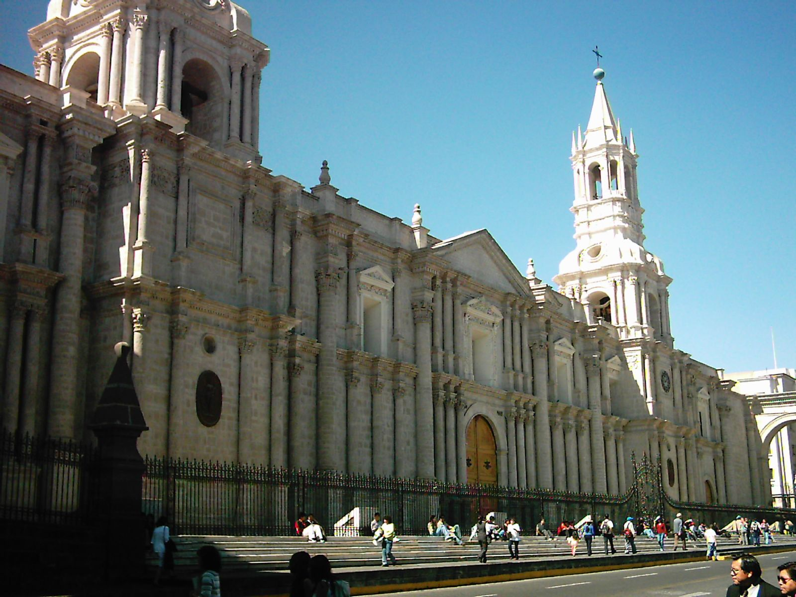 Basilica Cathedral of Arequipa , Arequipa, Peru